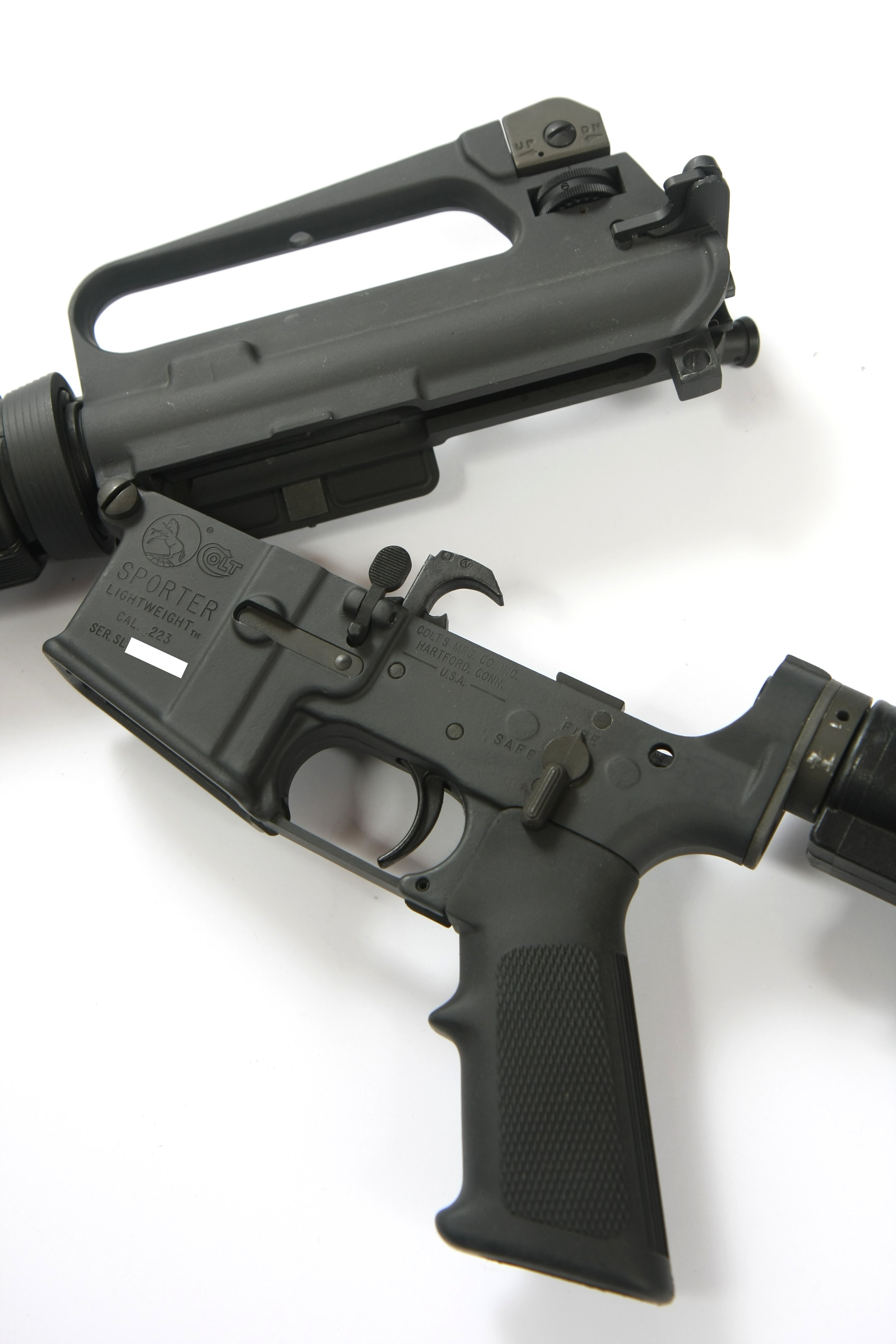 Upper and lower break Pre-ban Colt AR-15 Sporter Lightweight rifle.